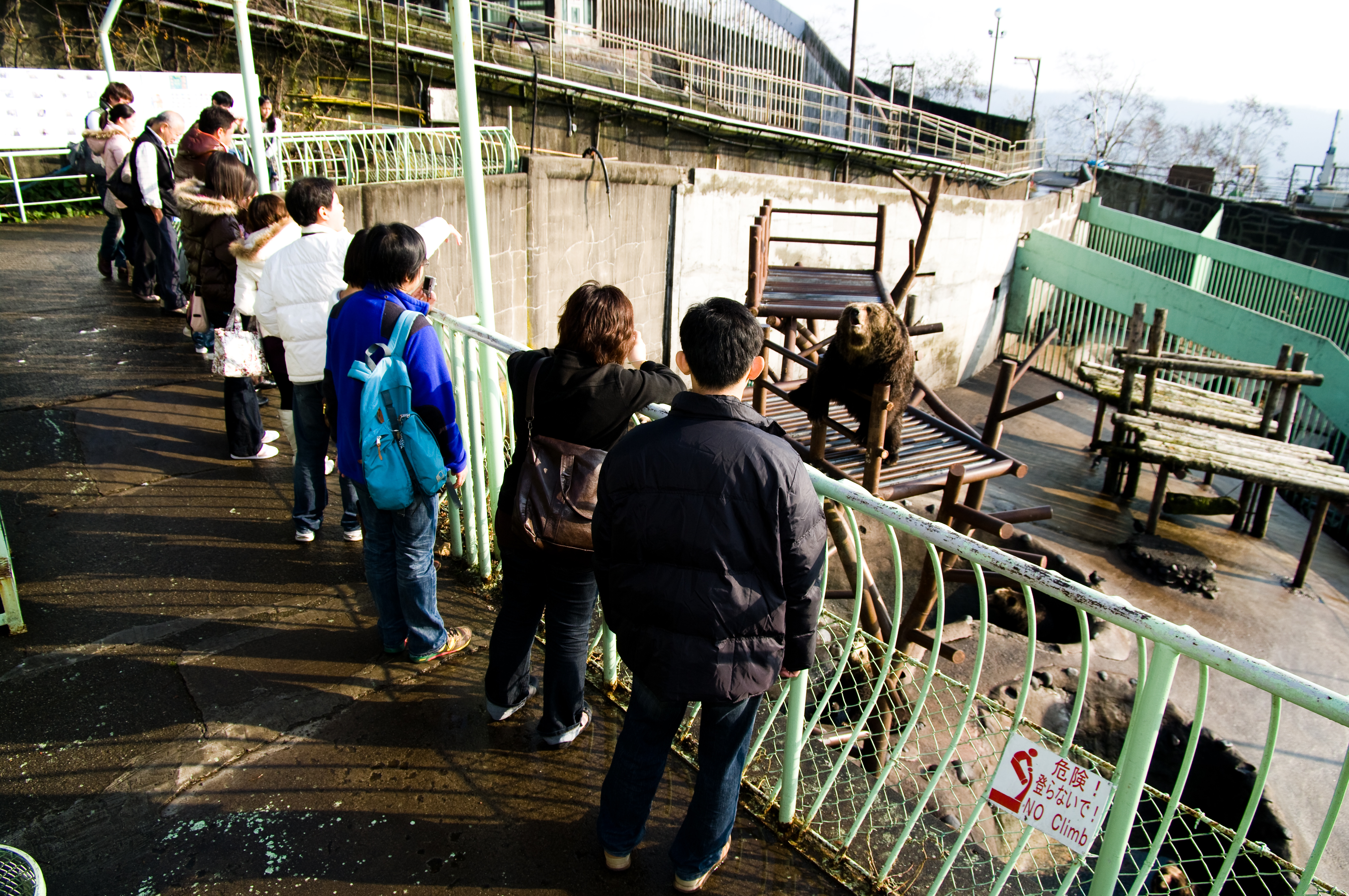 Noboribetsu bear park. Noboribetsu, Hokkaido, Japan.